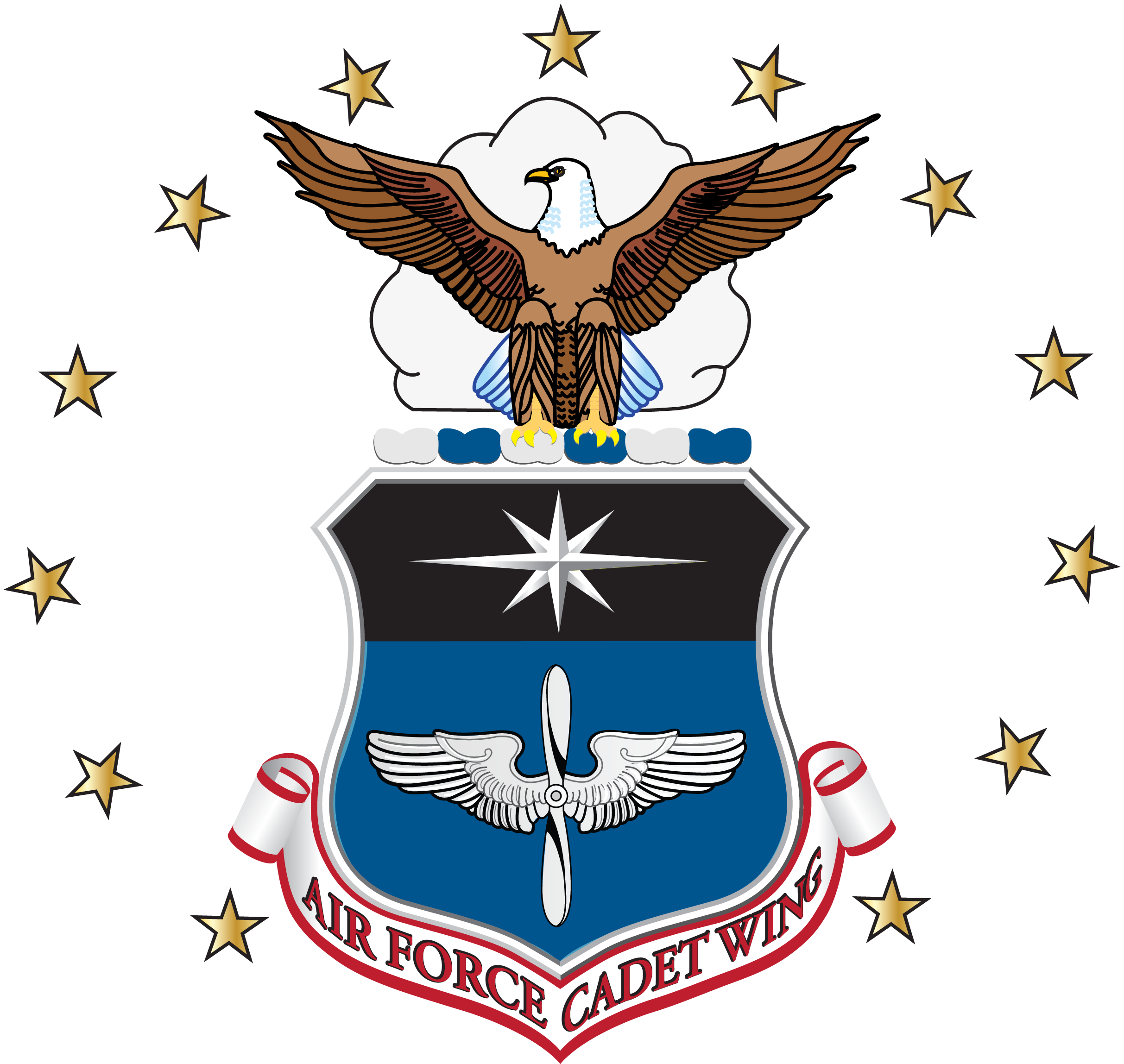 The seal/EMBLEM of the United States Air Force Cadet Wing. Designed by then Cadet First Class Christian W. Brechbuhl and approved for use by the Commandant of Cadets then Brig Gen Gregory Lengyel